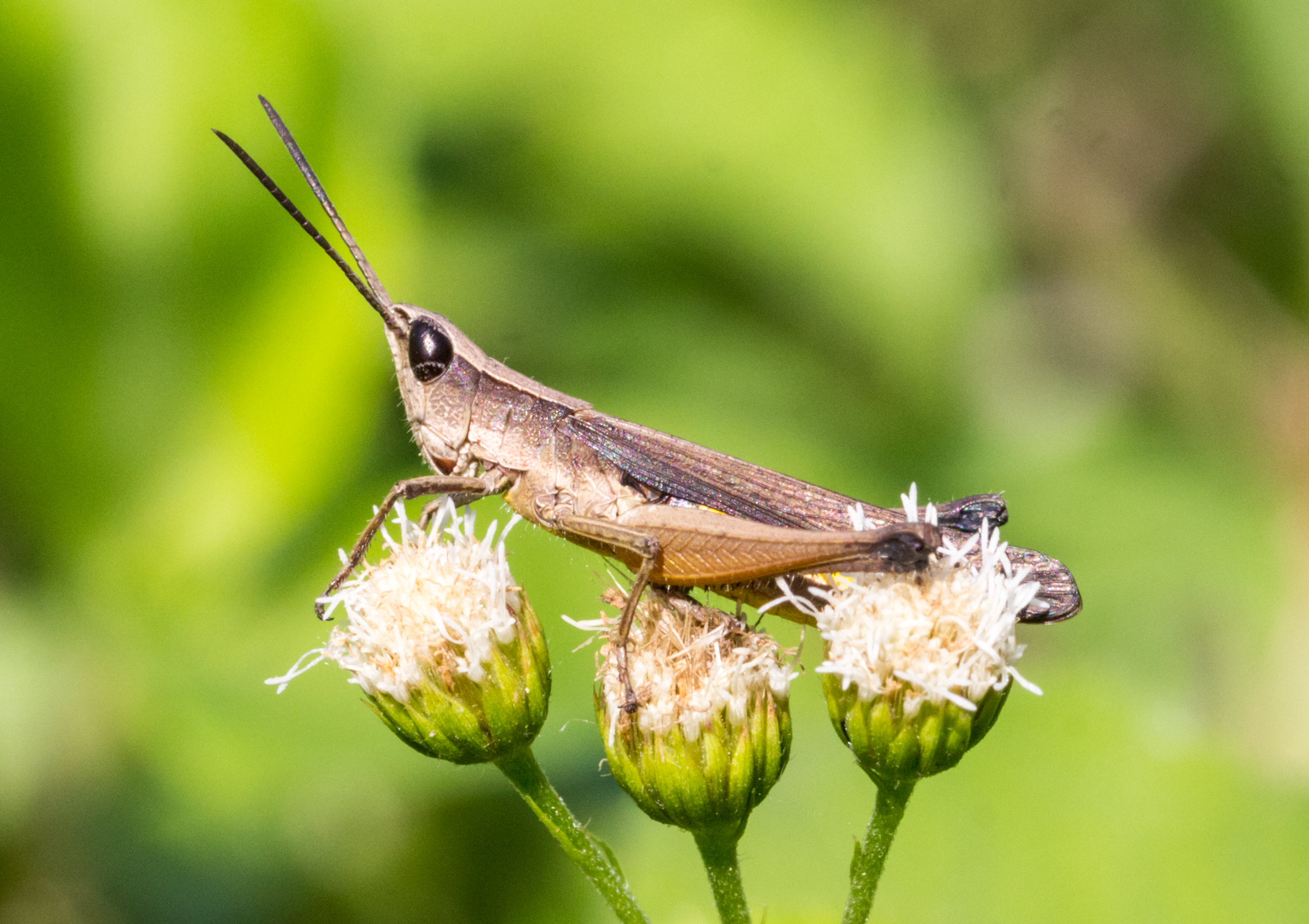 Unidentified grasshopper (Phlaeoba sp. [identified by Xu Rui Hua Jeff on Facebook], perhaps Phlaeoba fumida) on flowers at Pramaban, Yogyakarta, 2014-05-31